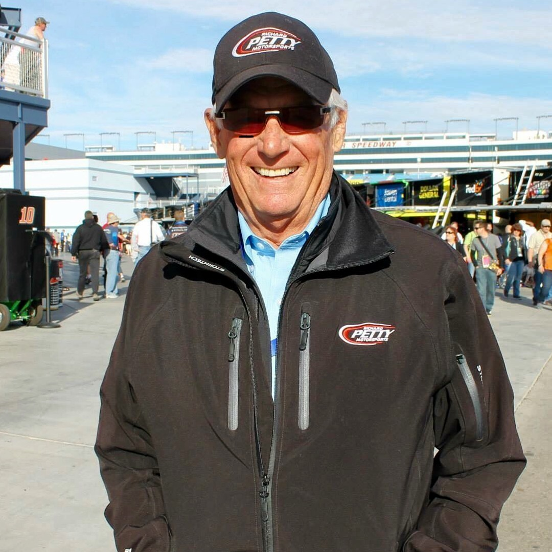 Dale Inman at Las Vegas Motor Speedway - March 2014 Photo Credit: Rob Street Racing Photography